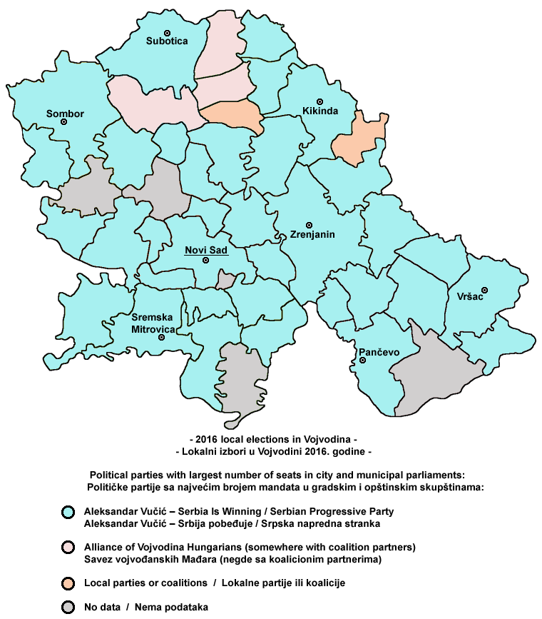 Election map of Vojvodina - results of 2016 local elections.